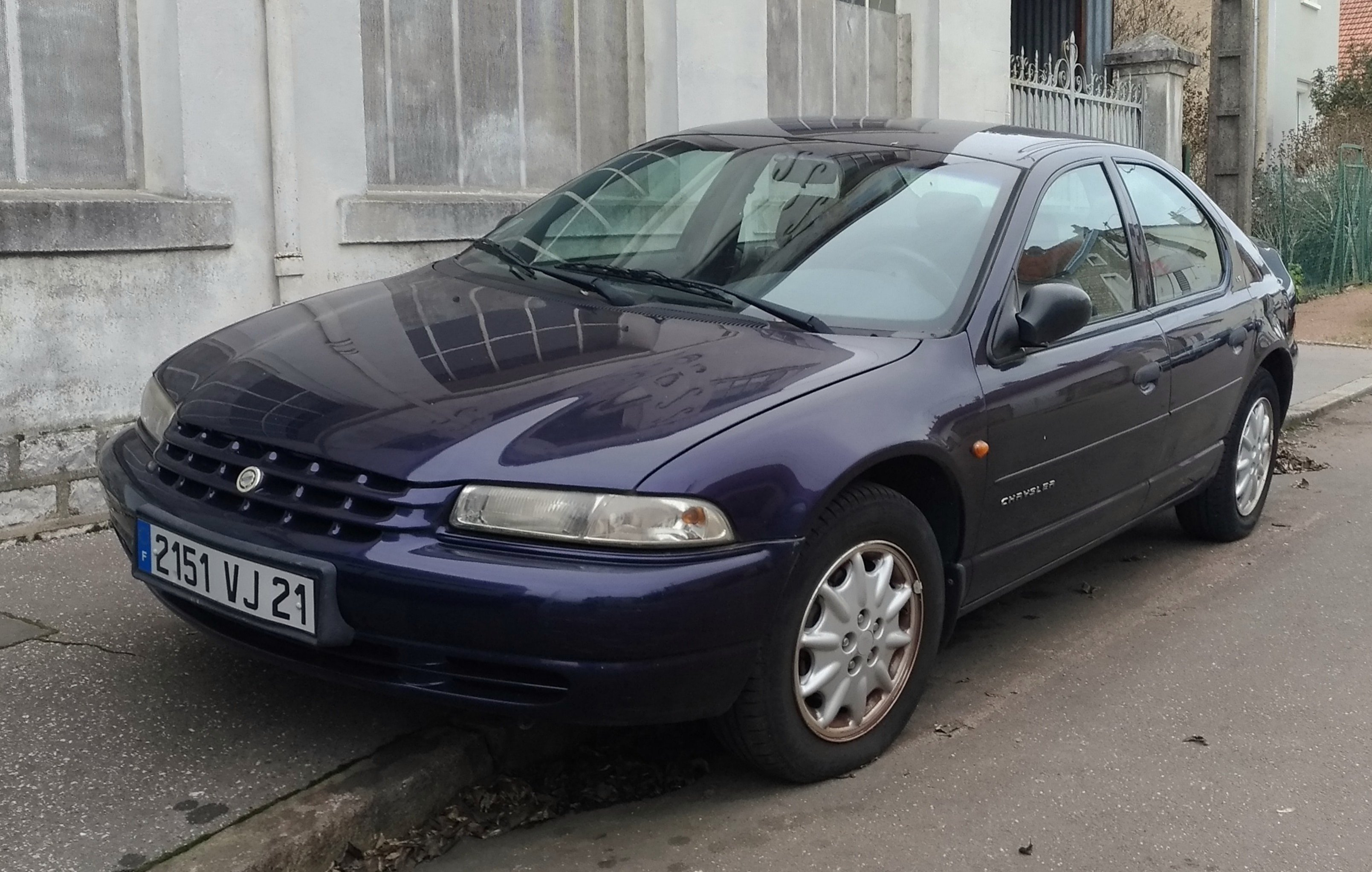 1998 Chrysler Stratus (2.0 133 hp) at Dijon